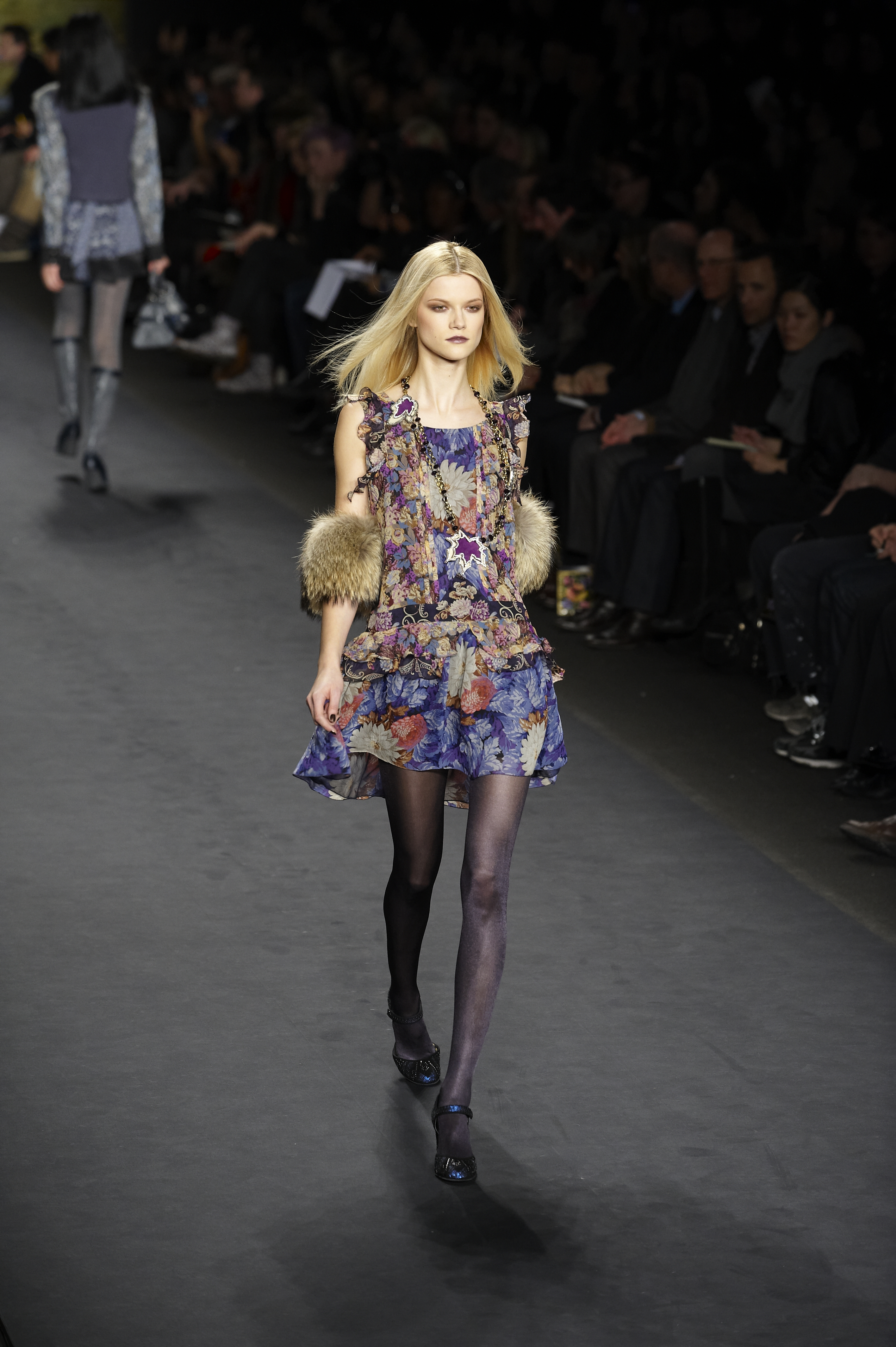 A model walks the runway at the Anna Sui Fall/Winter 2010 show at New York Fashion Week, February 2010.